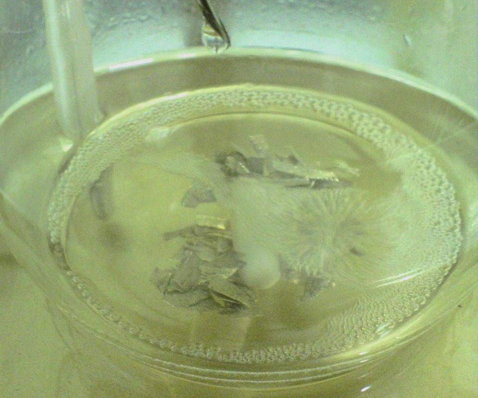 An example of chemical experiment using Grignard reagent. Part 3. A solution of alkyl bromide was added while heating.